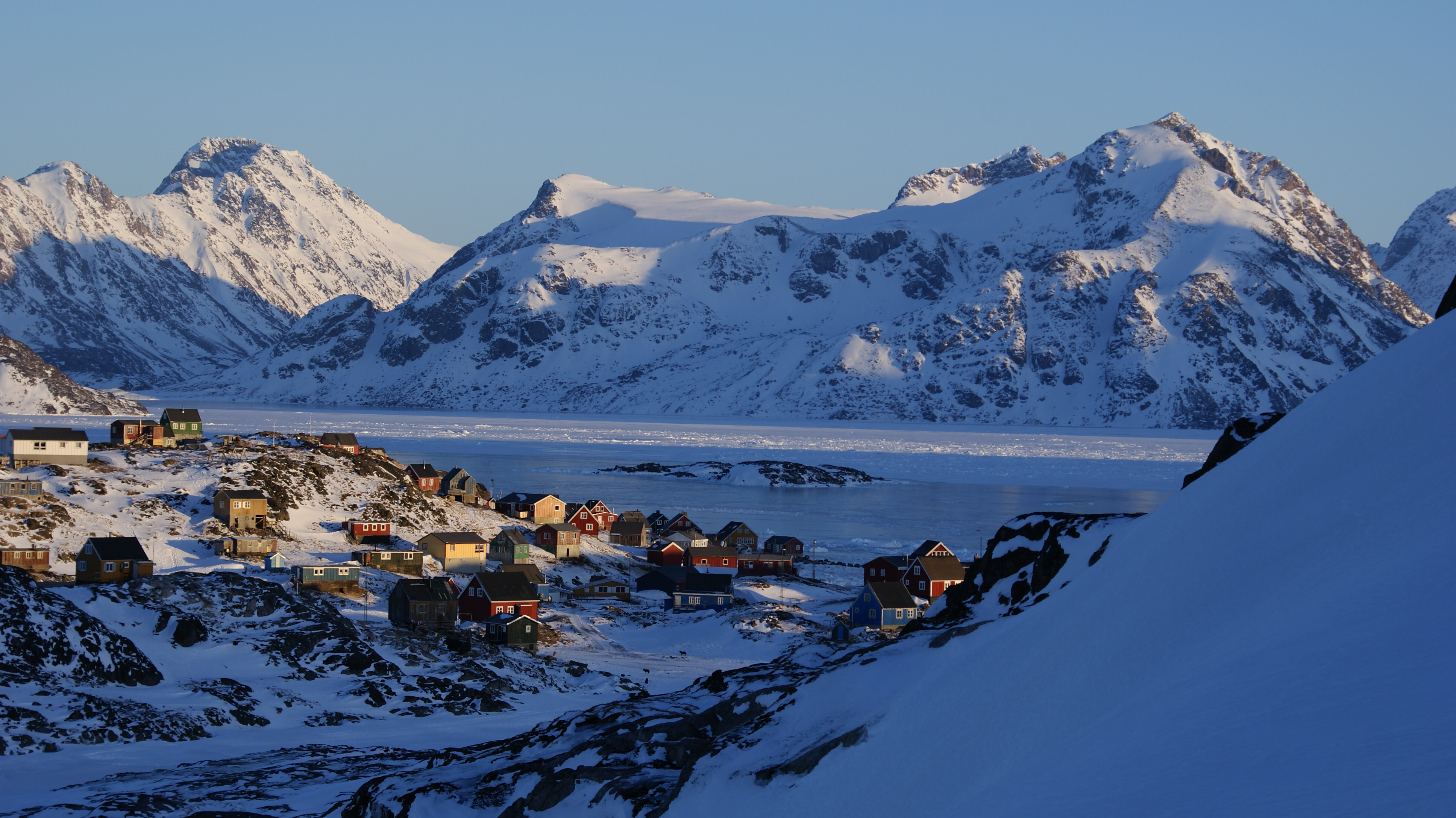 Kulusuk, Greenland. Photographed from an icefield slope to the southwest of the settlement. Torssuut Tunoq sound and mountainous Apusiaajik Island in the background.